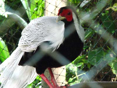 Male Lophura nycthemera (Silver Pheasant) Date of photograph: June 9, 2007 Location: Malagos Garden Resort, Baguio District, Davao City